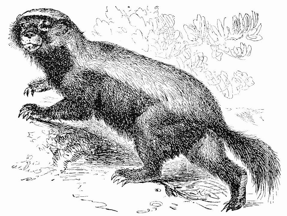 Illustration from Brockhaus and Efron Encyclopedic Dictionary (1890—1907)